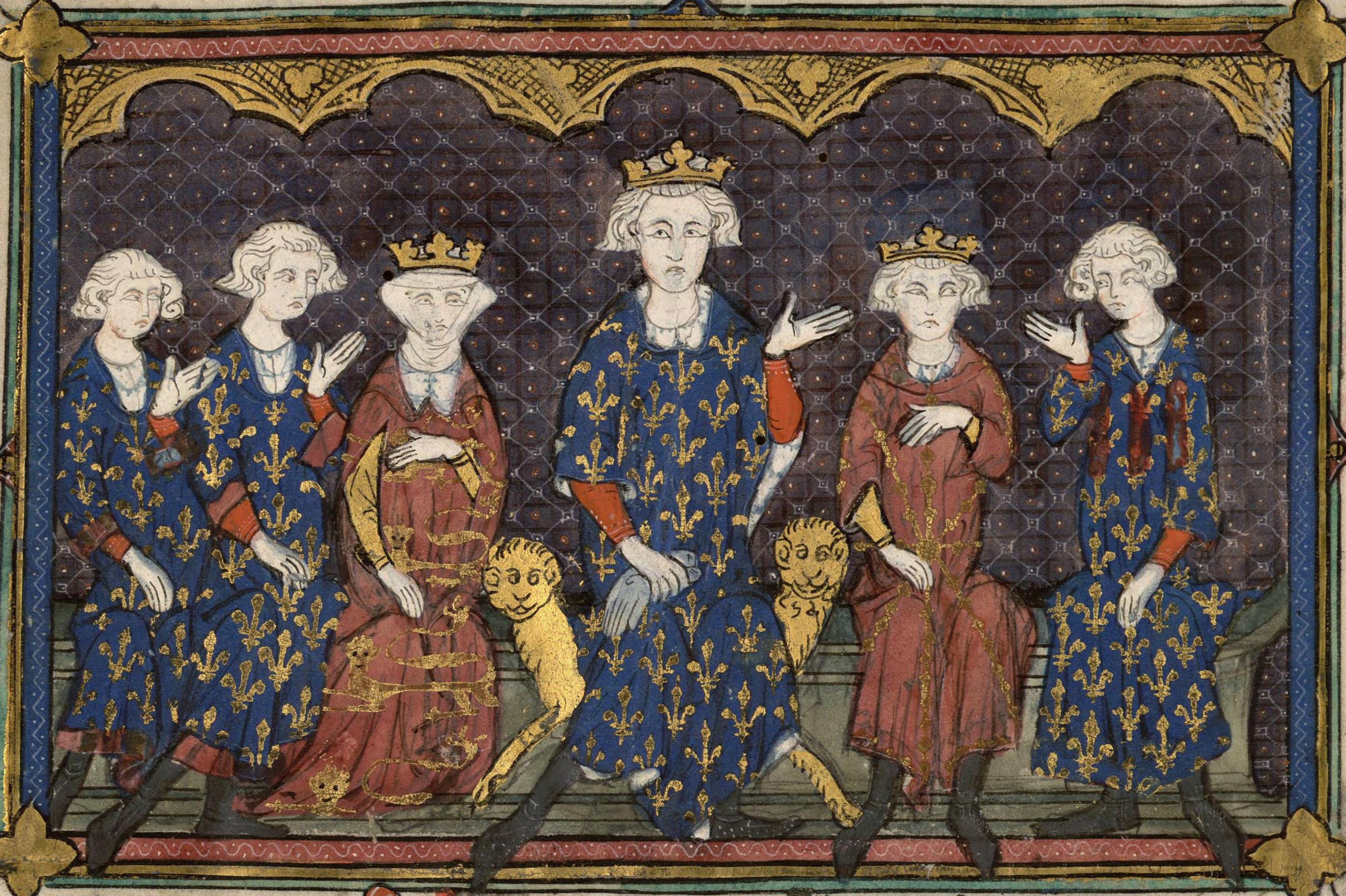 Philip IV of France and his family: l-r: his sons, Charles IV of France and Philip V of France, his daughter Isabella of France (wife of Edward II of England), himself, his eldest son and heir the King of Navarre, Louis X of France, and his brother, Charles of Valois. This copy is listed as being from Original vellum manuscript dated 1313, filed as Ms Lat 8504 f.1v, Bibliotheque Nationale, Paris, France. Author anonymous.